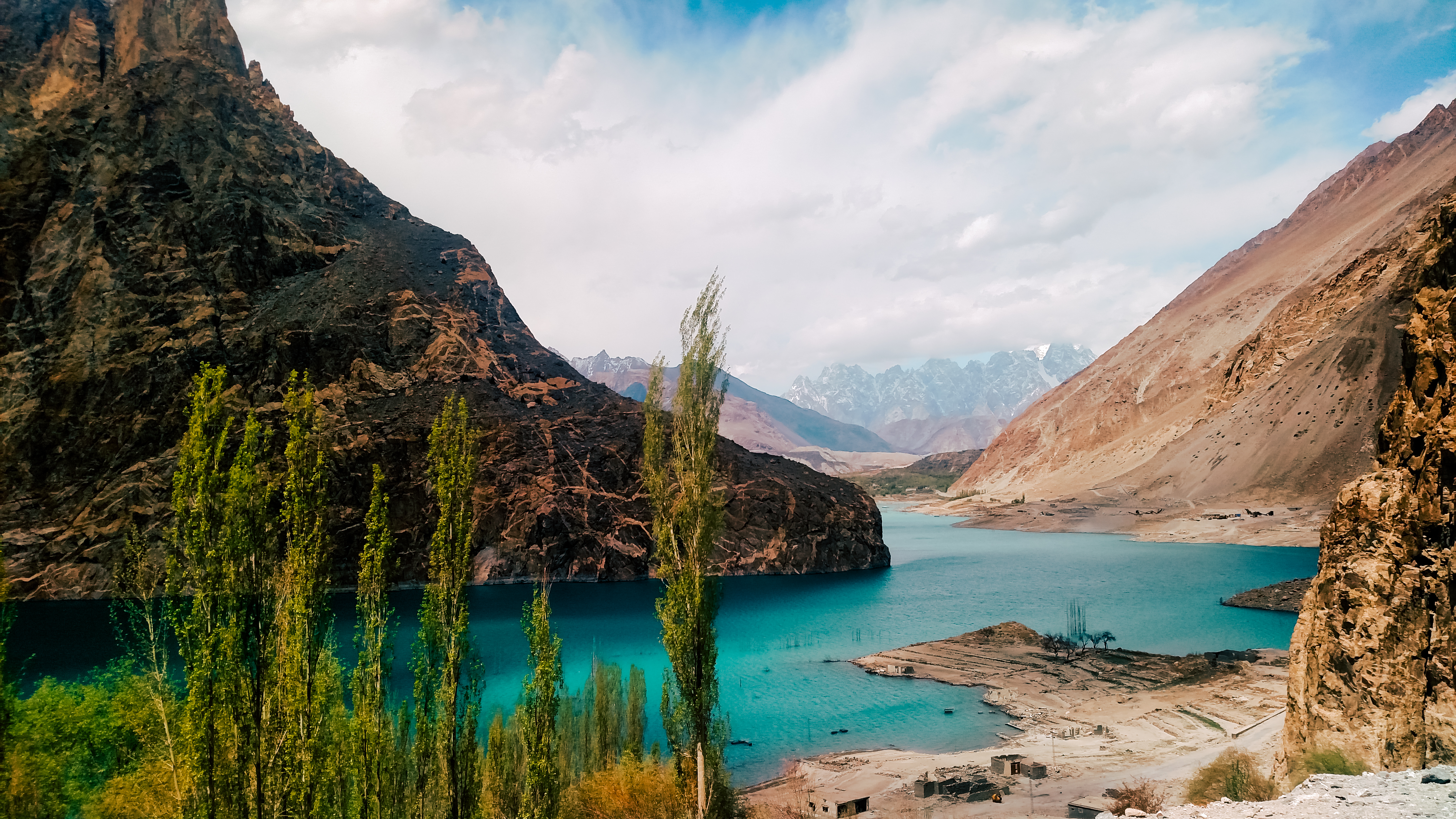 The lake was formed due to a massive landslide at Attabad Village in Hunza Valley in Gilgit-Baltistan, 9 miles (14 km) upstream (east) of Karimabad that occurred on 4 January 2010.